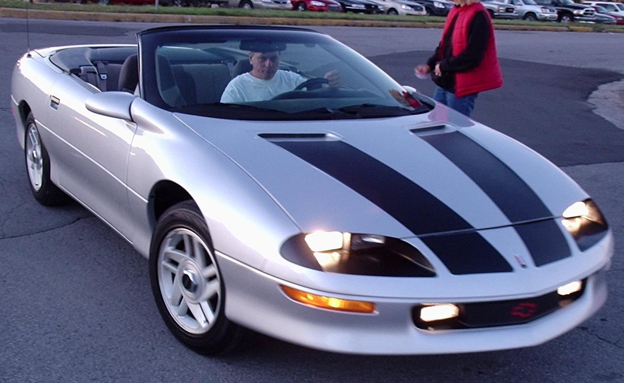 Chevrolet Camaro photographed in Laval, Quebec, Canada at Les chauds vendredis.